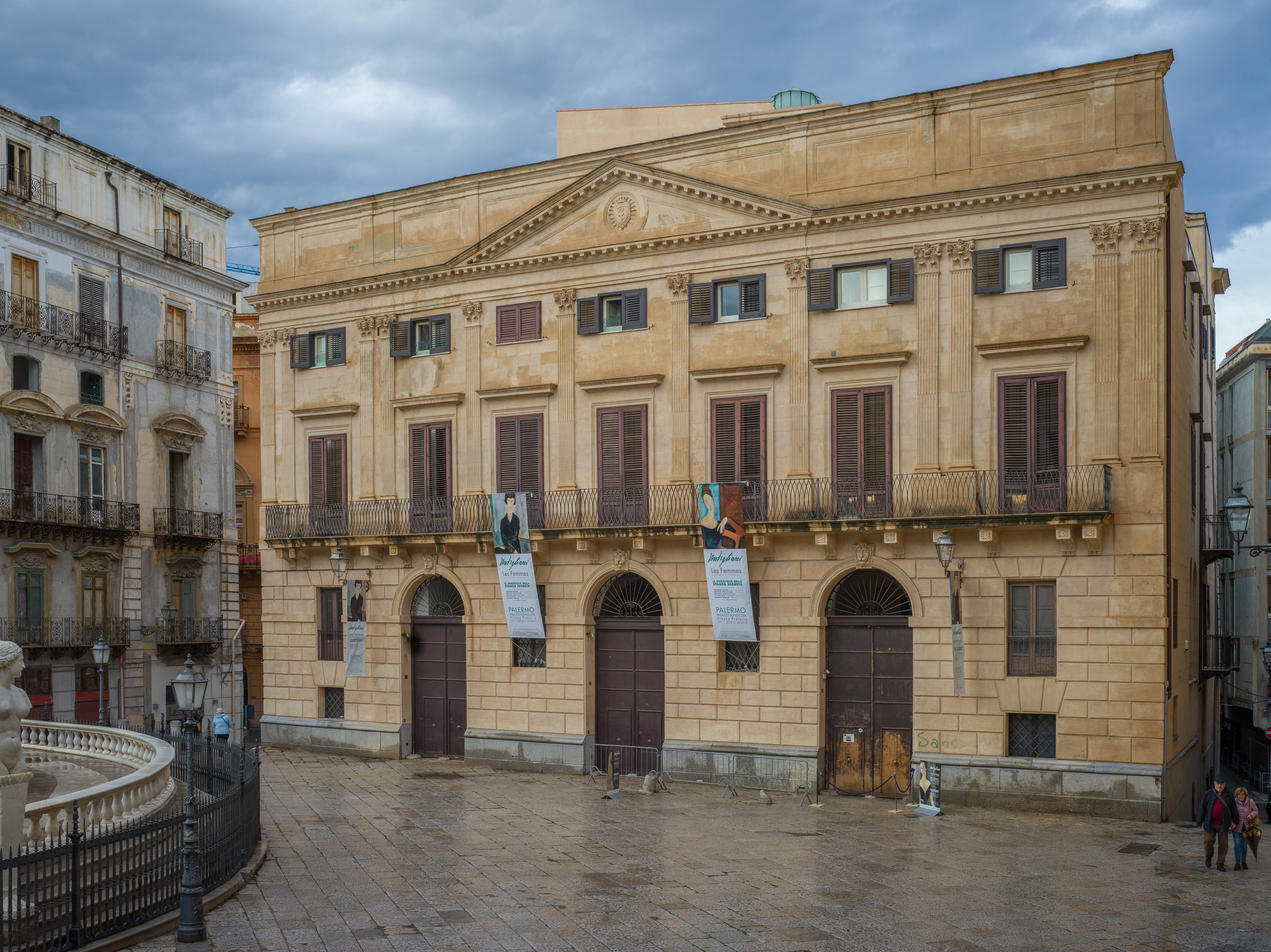 Palace Palazzo Bonocore on the Piazza Pretoria square in Palermo.